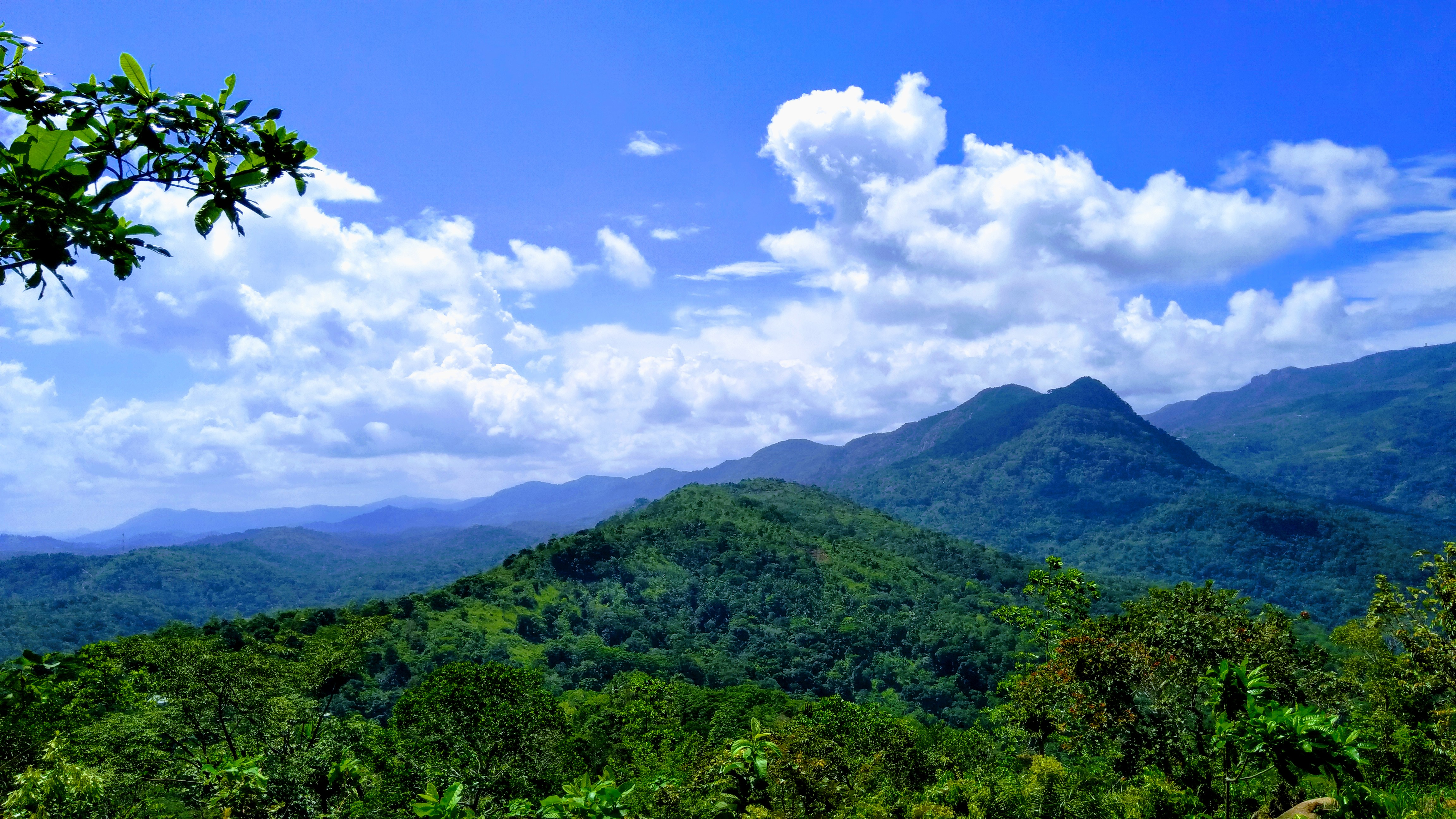 Morning Gongala Mountain view from Godawela area